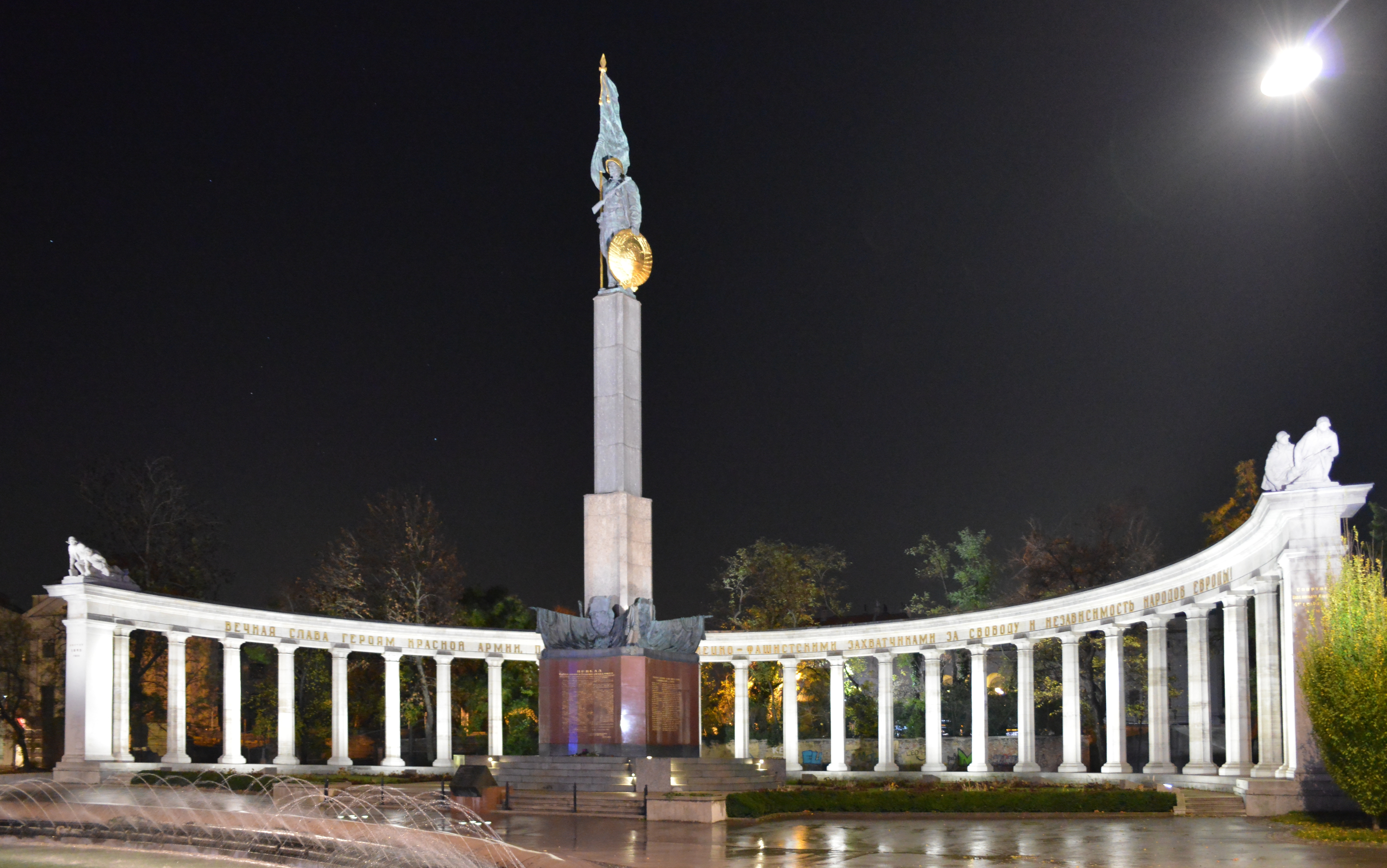 Austria, Vienna, Schwarzenbergplatz, Heroes Monument of the Red Army